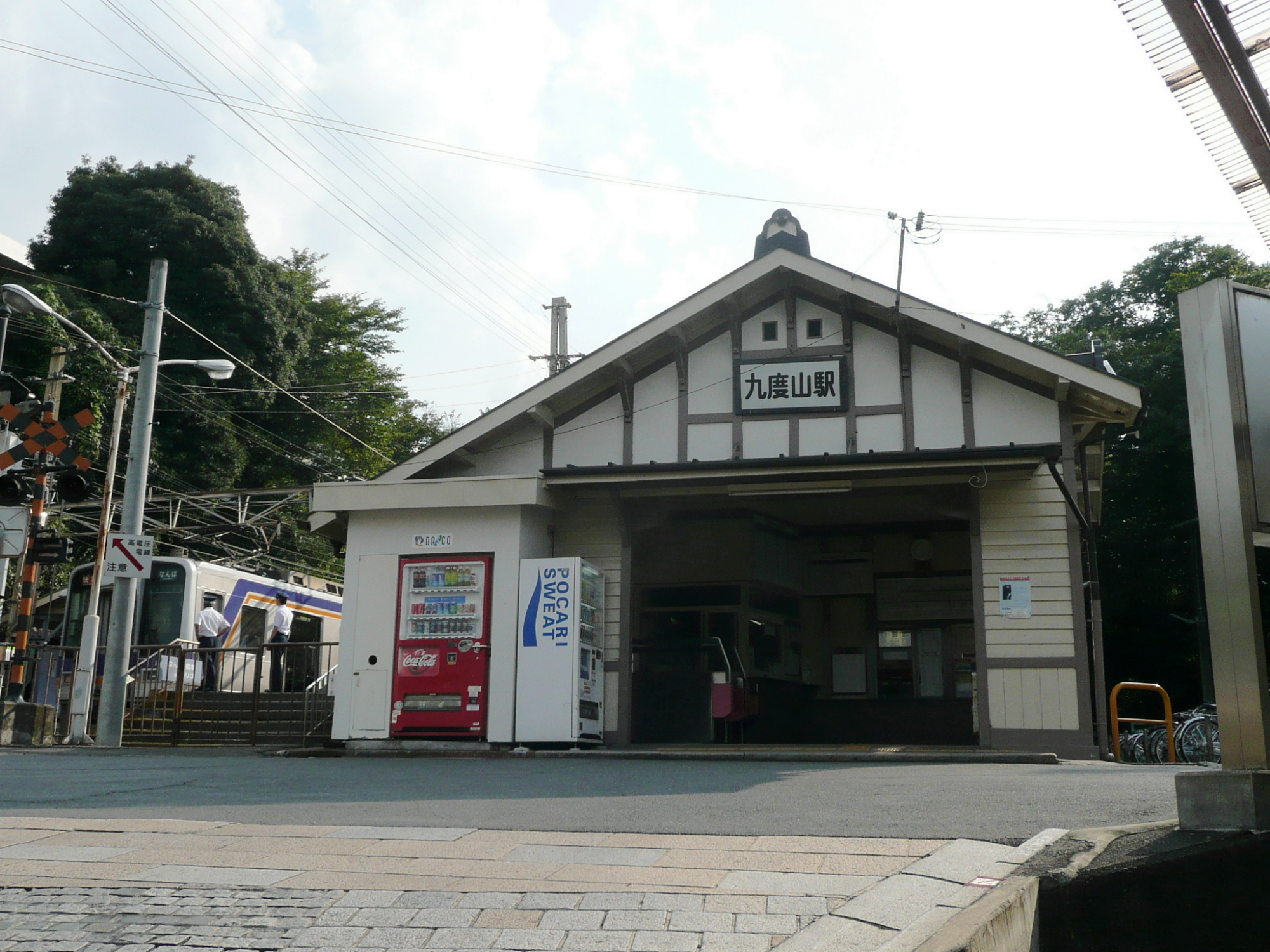 KUDOYAMA Station,Nankai Electric Railway.